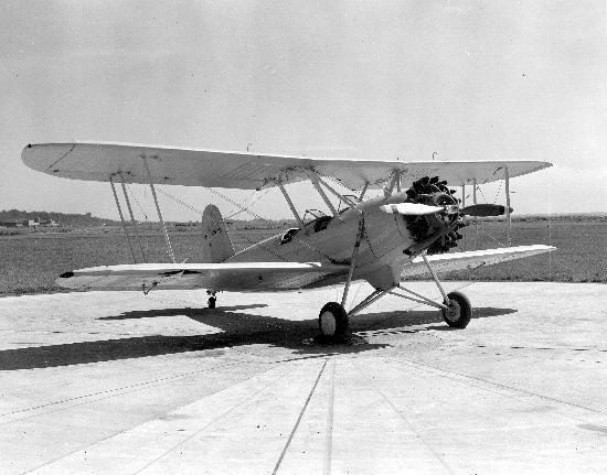 Catalog #: 00026322 Manufacturer: Spartan Designation: NP-1 Official Nickname: Notes: Repository: San Diego Air and Space Museum Archive